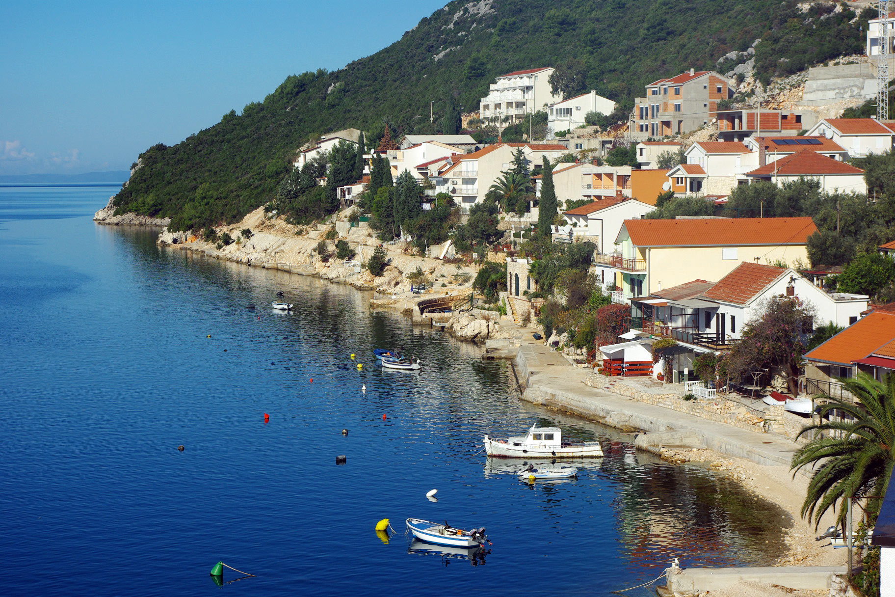 View over Komarna, Croatia.